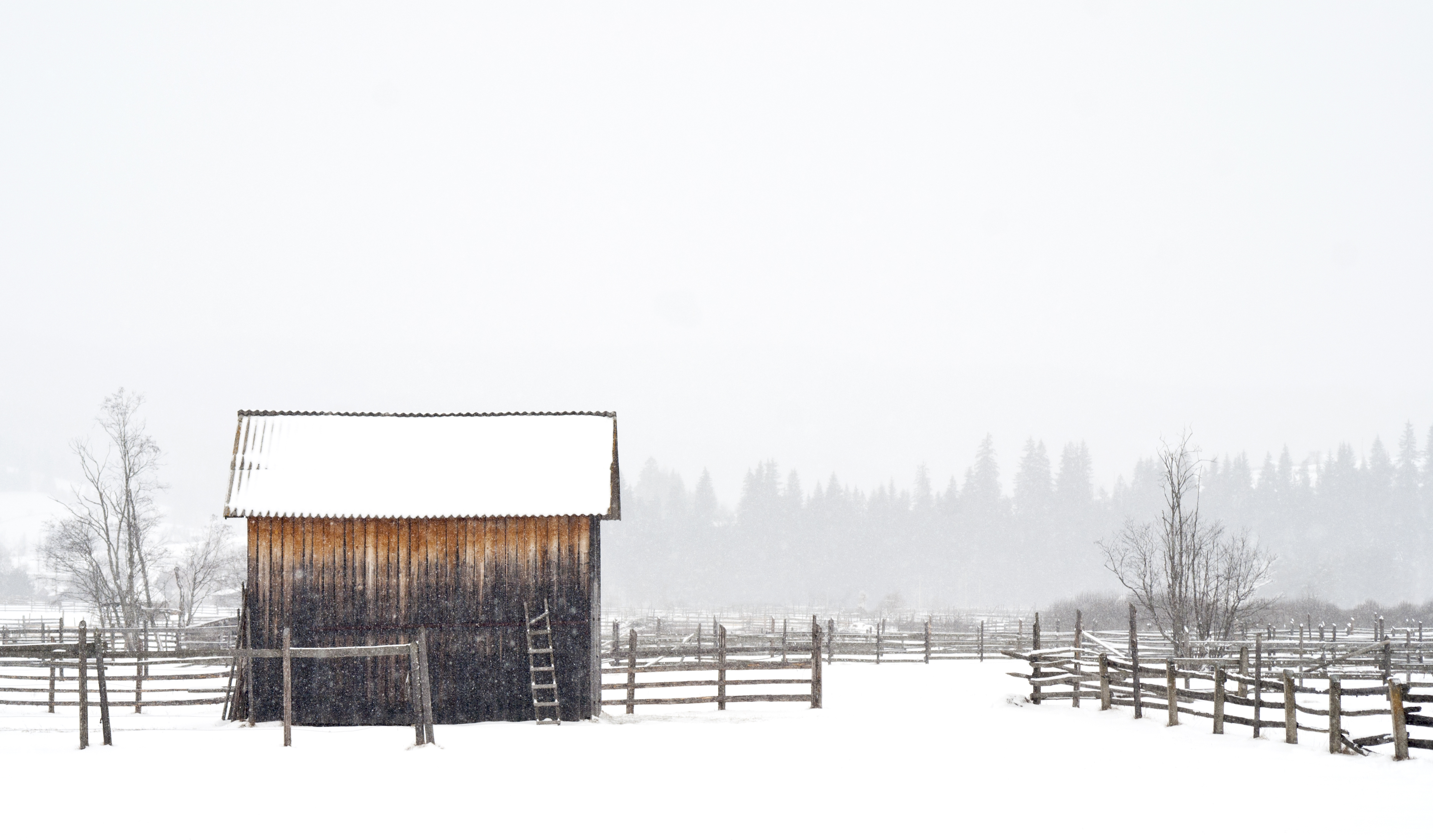 Livada cu cai, Cosna, Romania